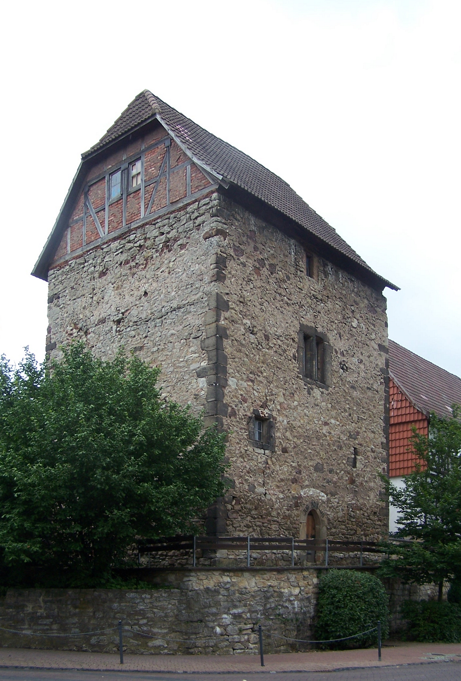 The Steinstock - rest of one of the the oldest castles in Stedtfeld